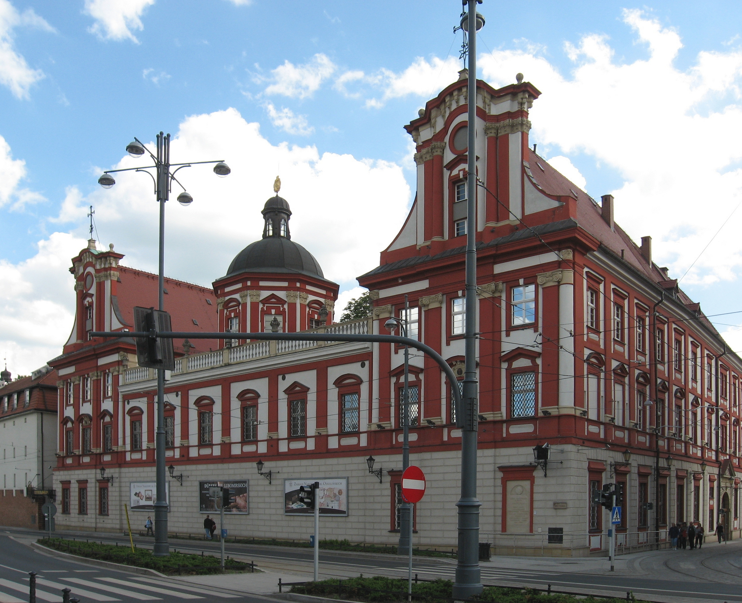 The building of Ossolineum in Wrocław. View from the Odra River.